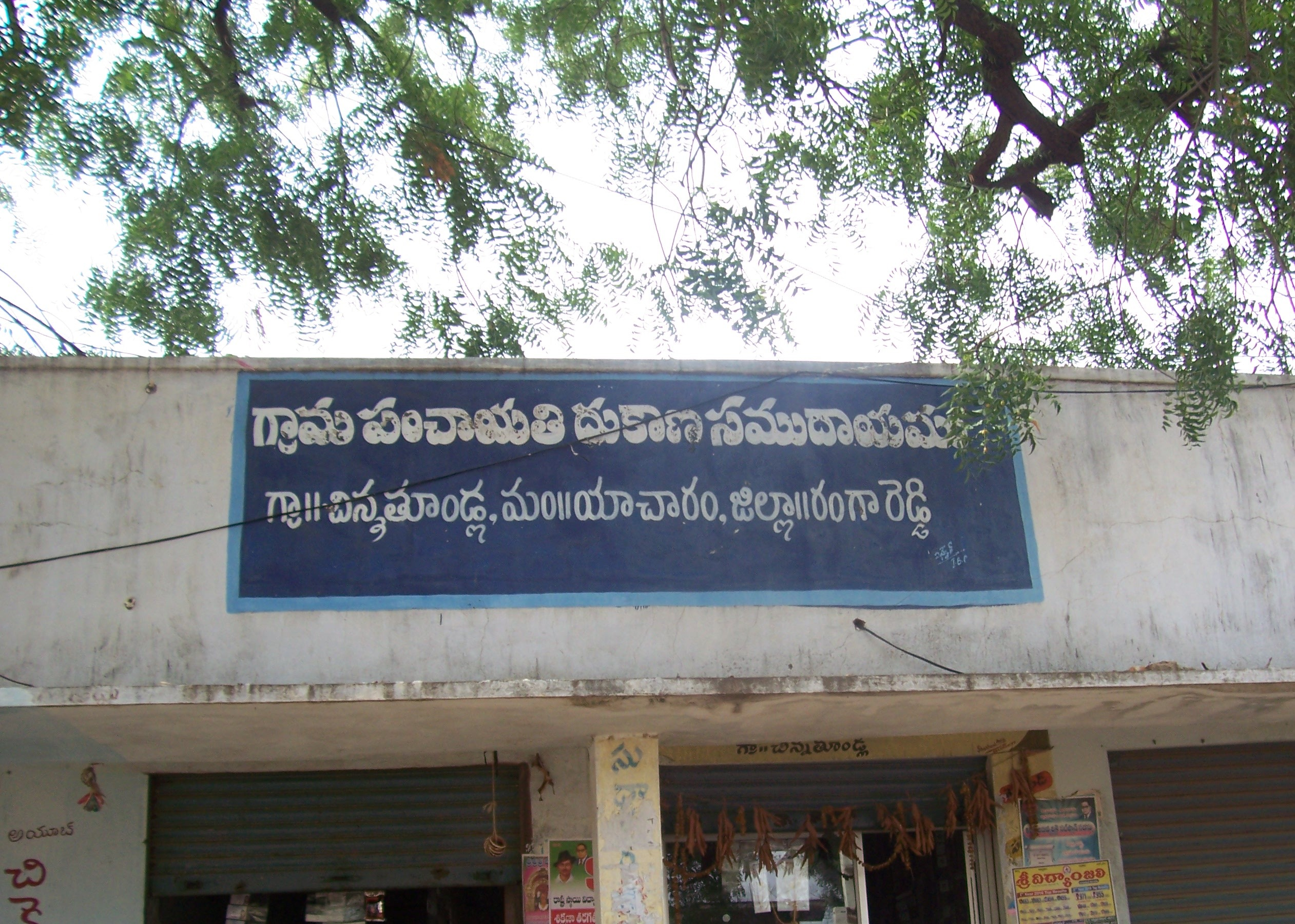 Village panchayat shops